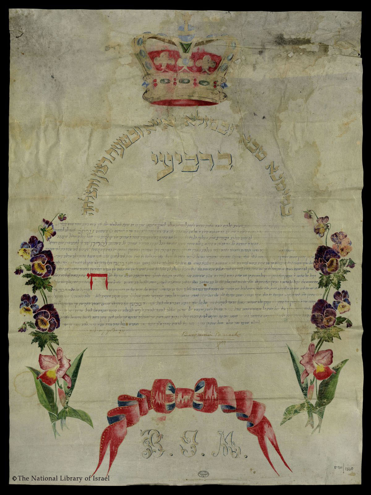 Ketubah from The Ketubbot Collection of the National Library of Israel